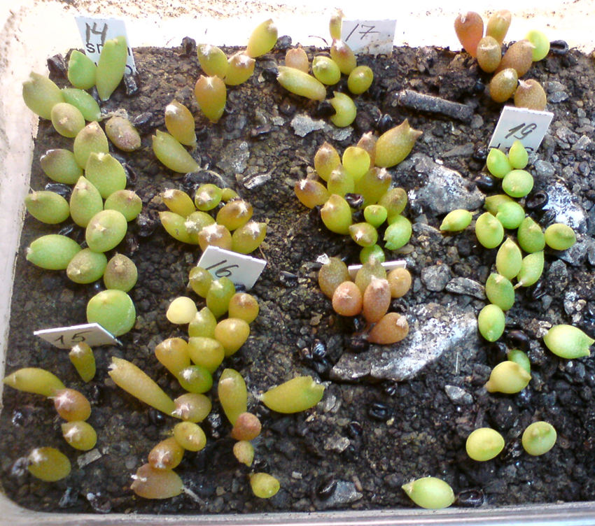 Collection of Astrophytum cacti